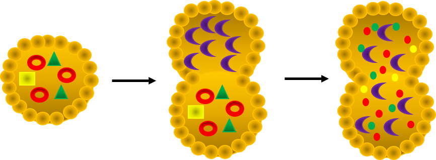 Simple descriptive image describing the process of autophagy.